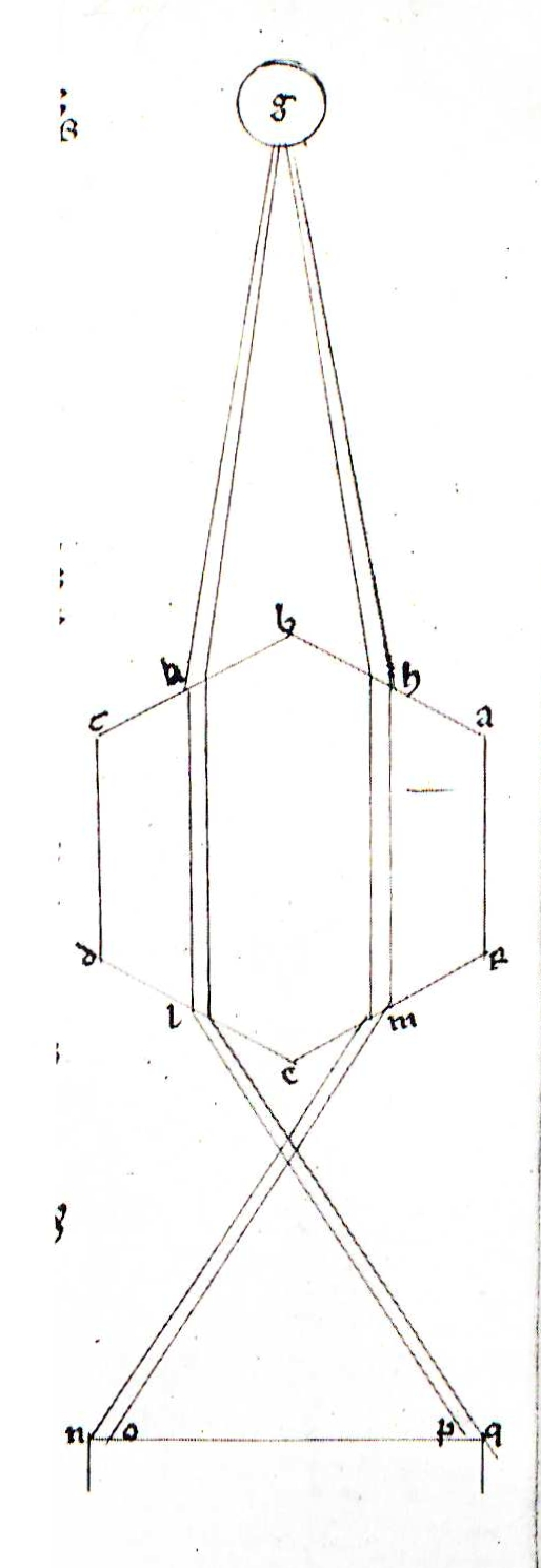 Theodoric of Freiberg: De Iride II,23. In: Manuscript Basel F. IV.30, f. 24r.